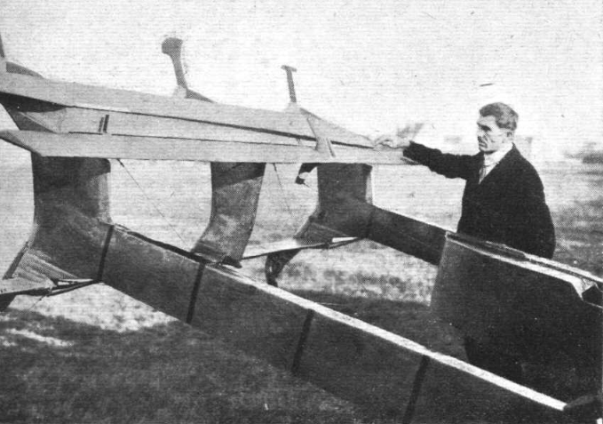 powered Budig motorglider - foreplane detail. 1923